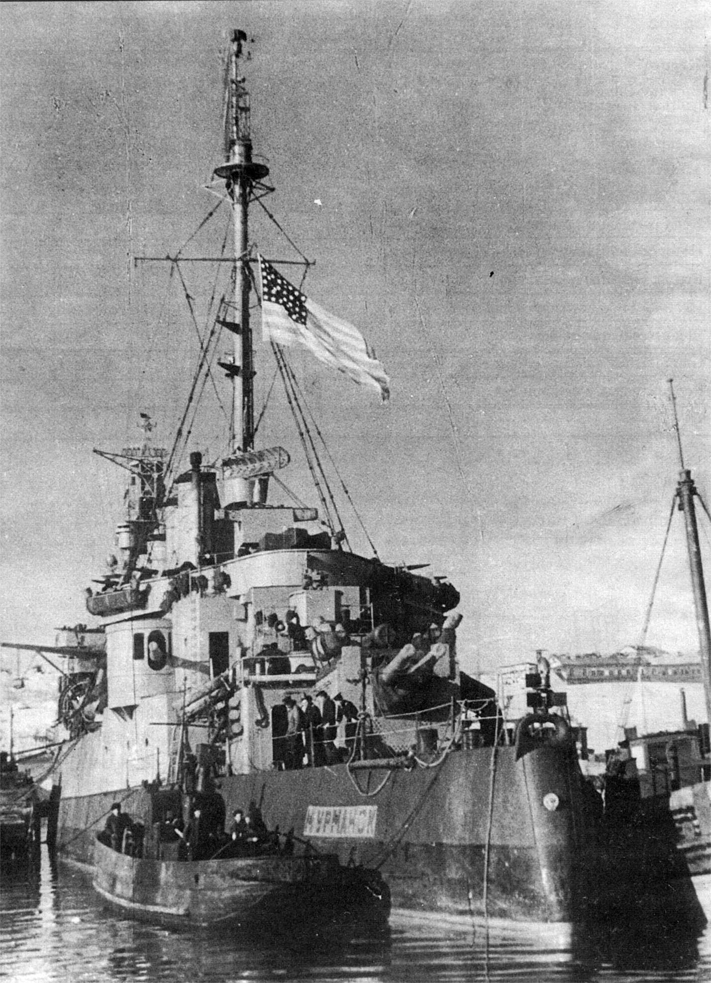 The U.S. Navy light cruiser USS Milwaukee (CL-5), circa in April 1944. Note that she flies the U.S. flag but wears the Soviet name Murmansk. On 20 April, the ship was transferred on loan to the Soviet Northern Fleet in the city of Murmansk. She was commissioned in the Soviet Navy as Murmansk and performed convoy and patrol duty in the Arctic Ocean for the remainder of the war. Afterward, she became a training ship and participated in the 1948 fleet maneuvers. On 16 March 1949, Milwaukee was transferred back to the United States and subsequently scrapped.